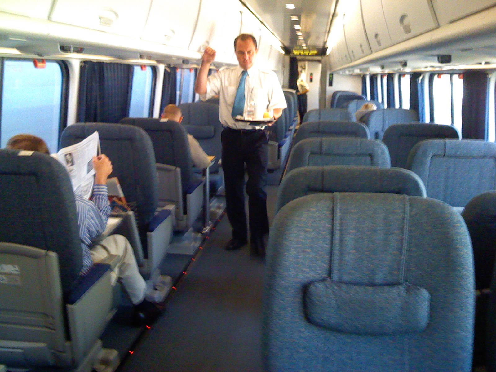 Inside the First Class car on the Acela Express to New York this morning. Happy Birthday, me! (not really till 8/30 but close to justify the upgrade)